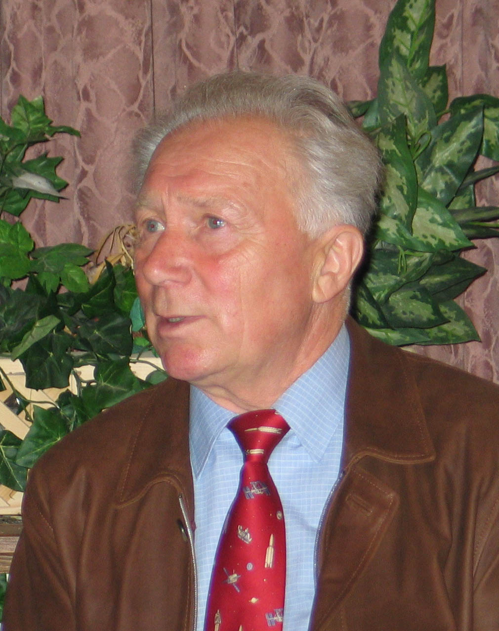 German cosmonaut Sigmund Jähn